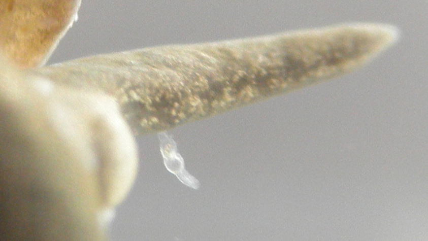 Photo of Chaetogaster limnaei limnaei on a tentacle of Lymnaea stagnalis.